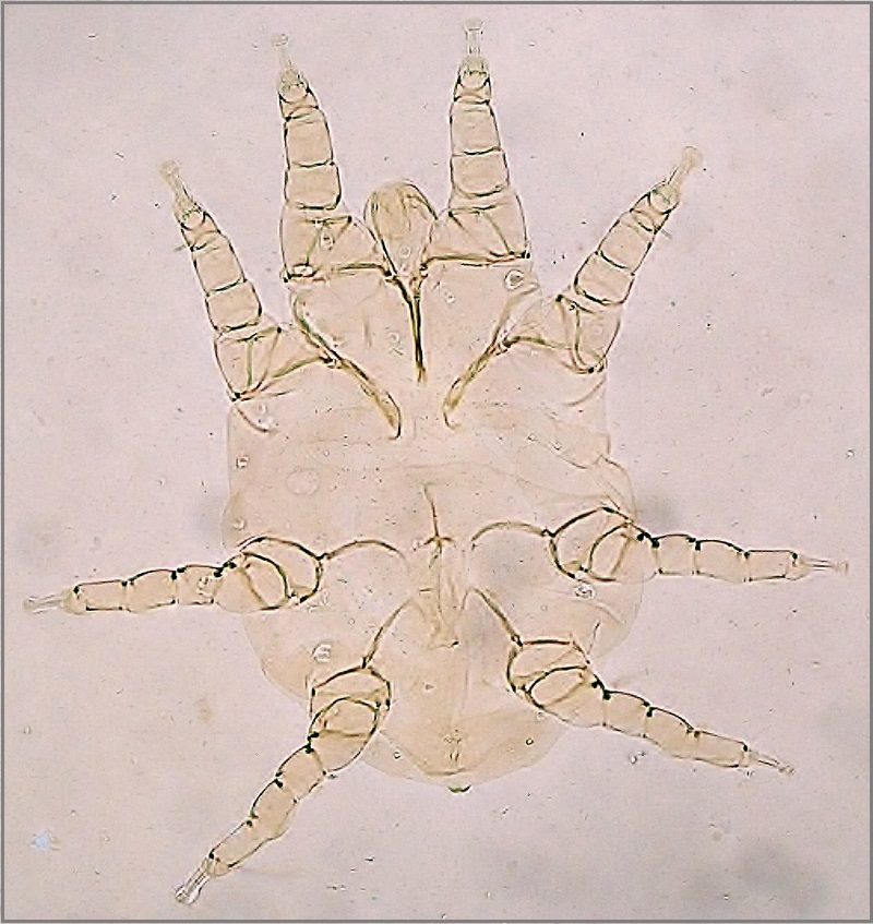 A parasitic mite of domestic animals.